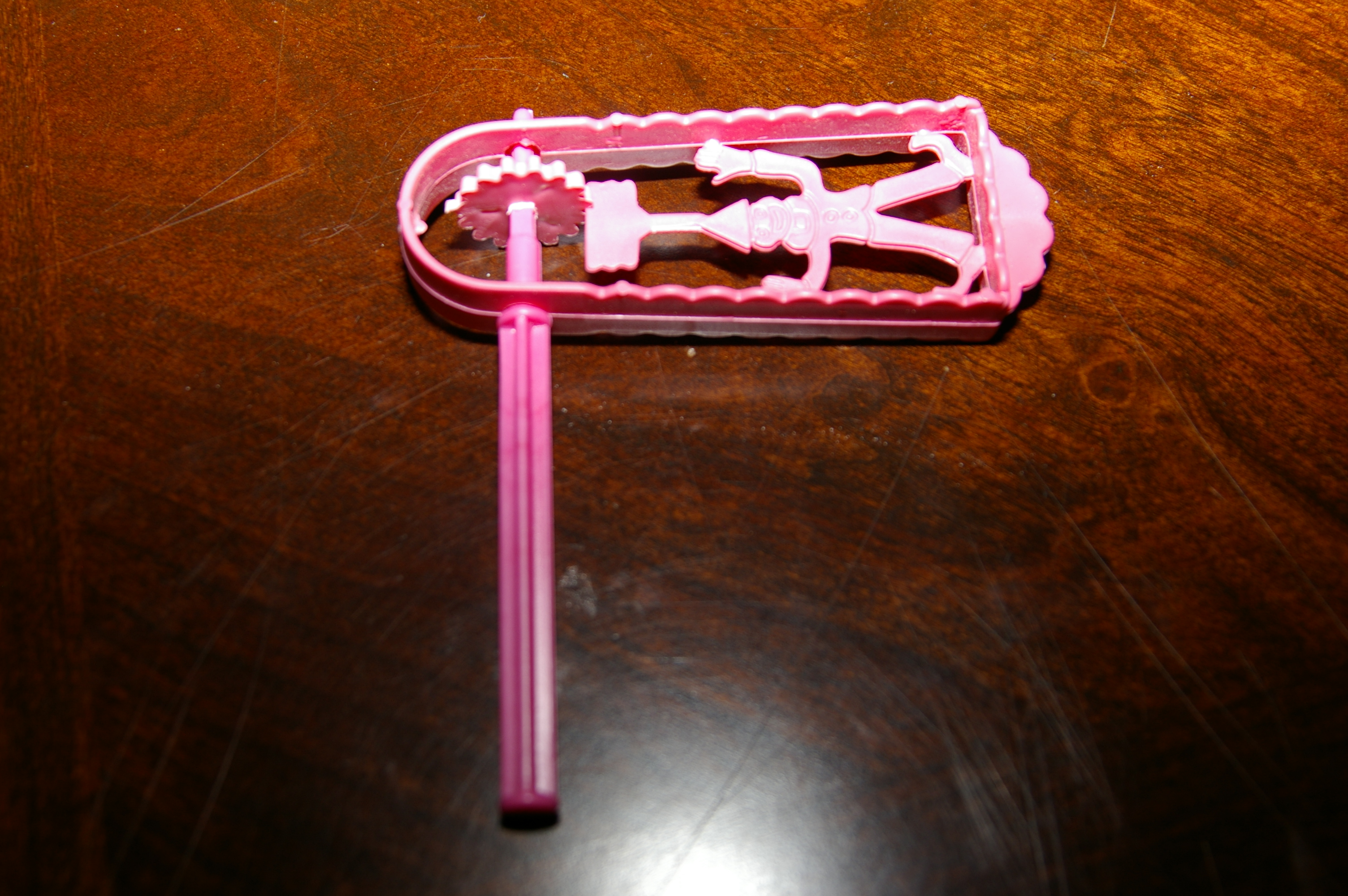 I took the picture myself.